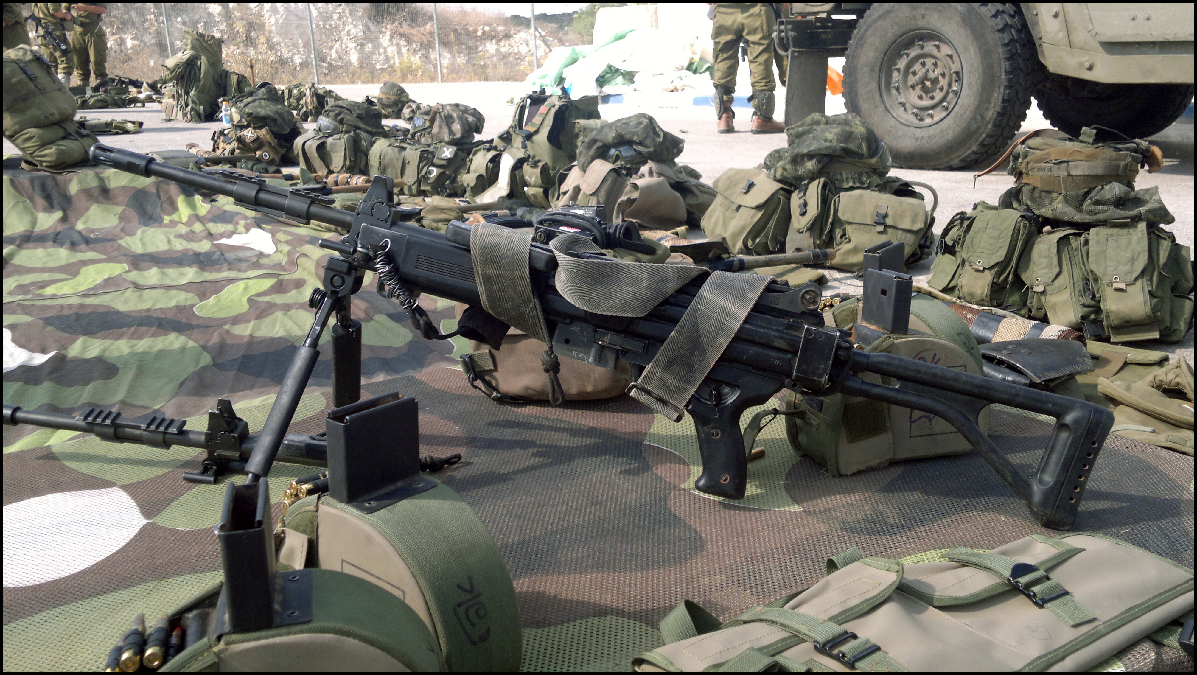 IMI/IWI Negev light machine gun